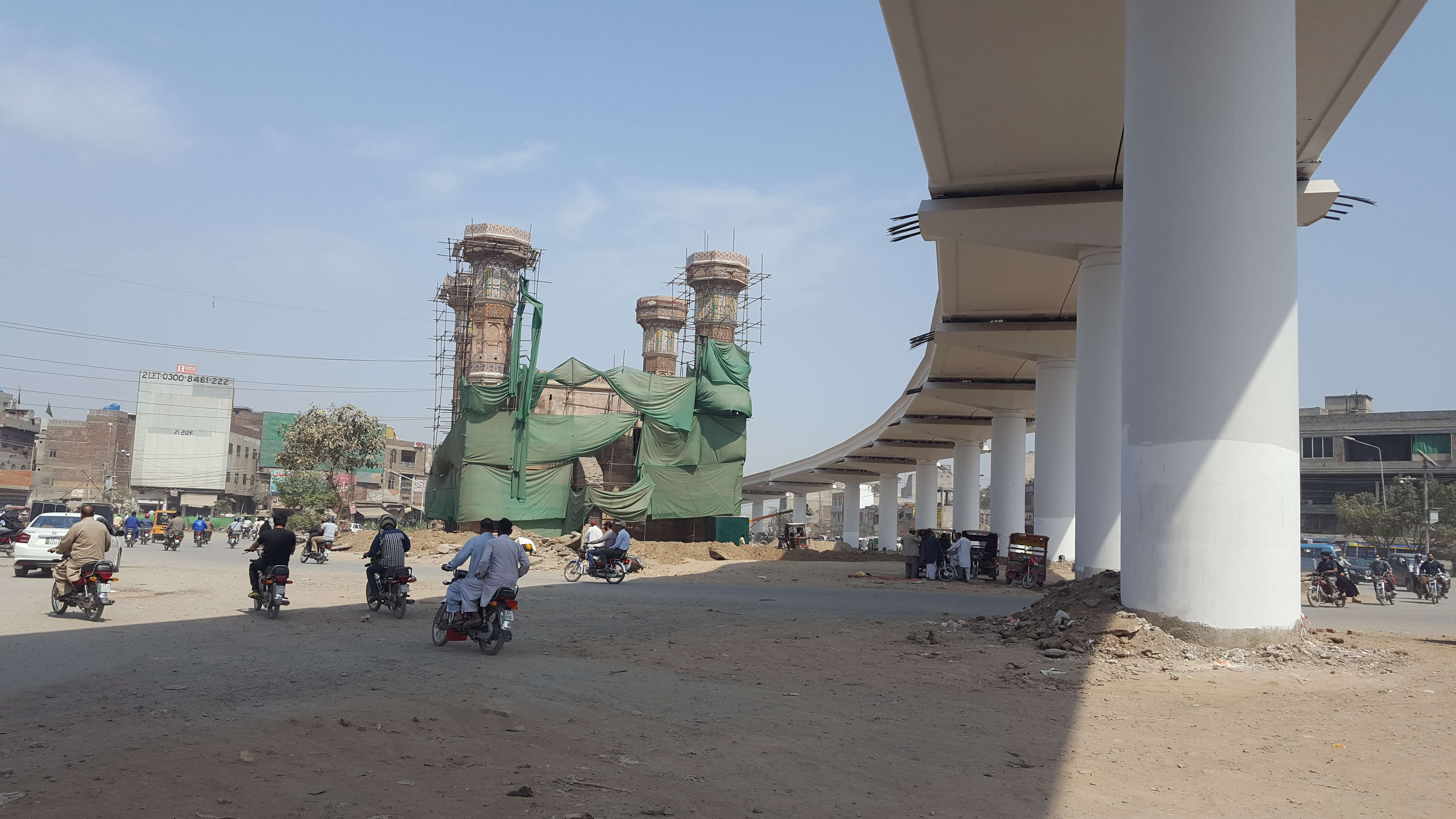 Chauburji This is a photo of a monument in Pakistan identified as the PB-46